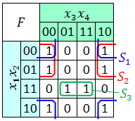 Karnaugh Map intro